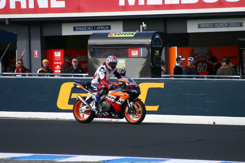 Mick Doohan on the Aussie legends ride around the track.